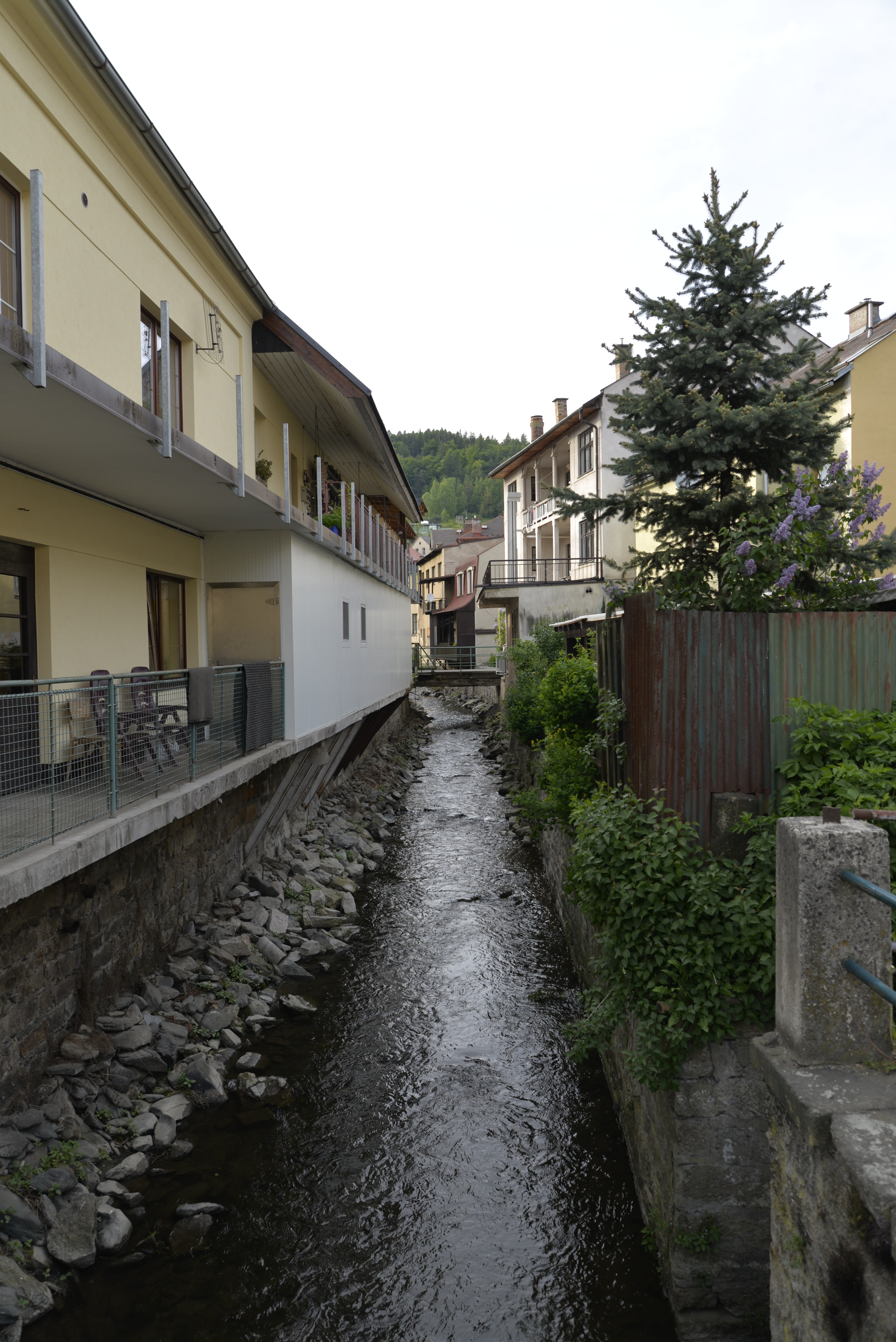 River Žernovník, Železný Brod.